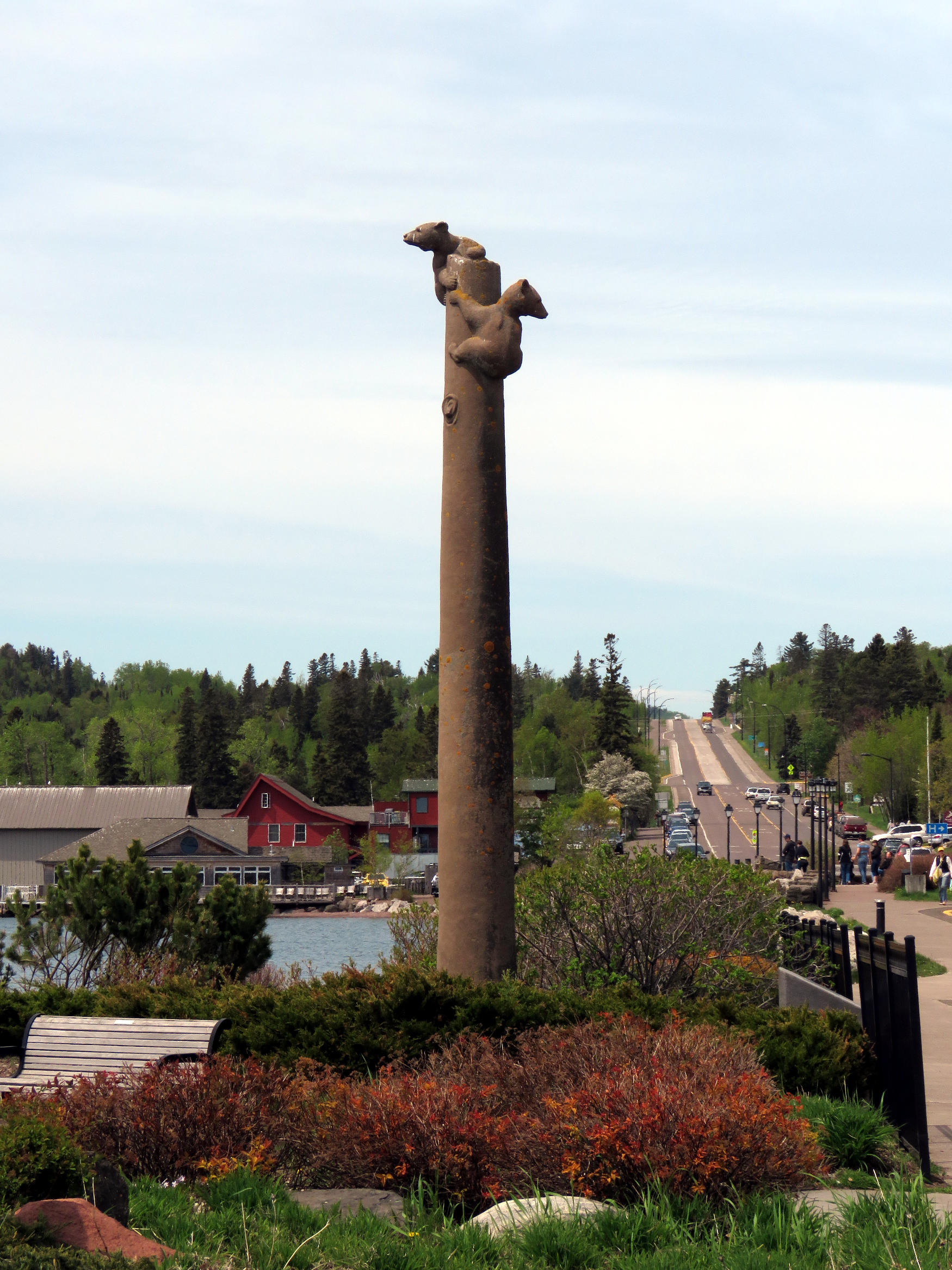 Sculpture in Grand Marais, Mn, USA. Takes the form of two bear cubs on a pole.